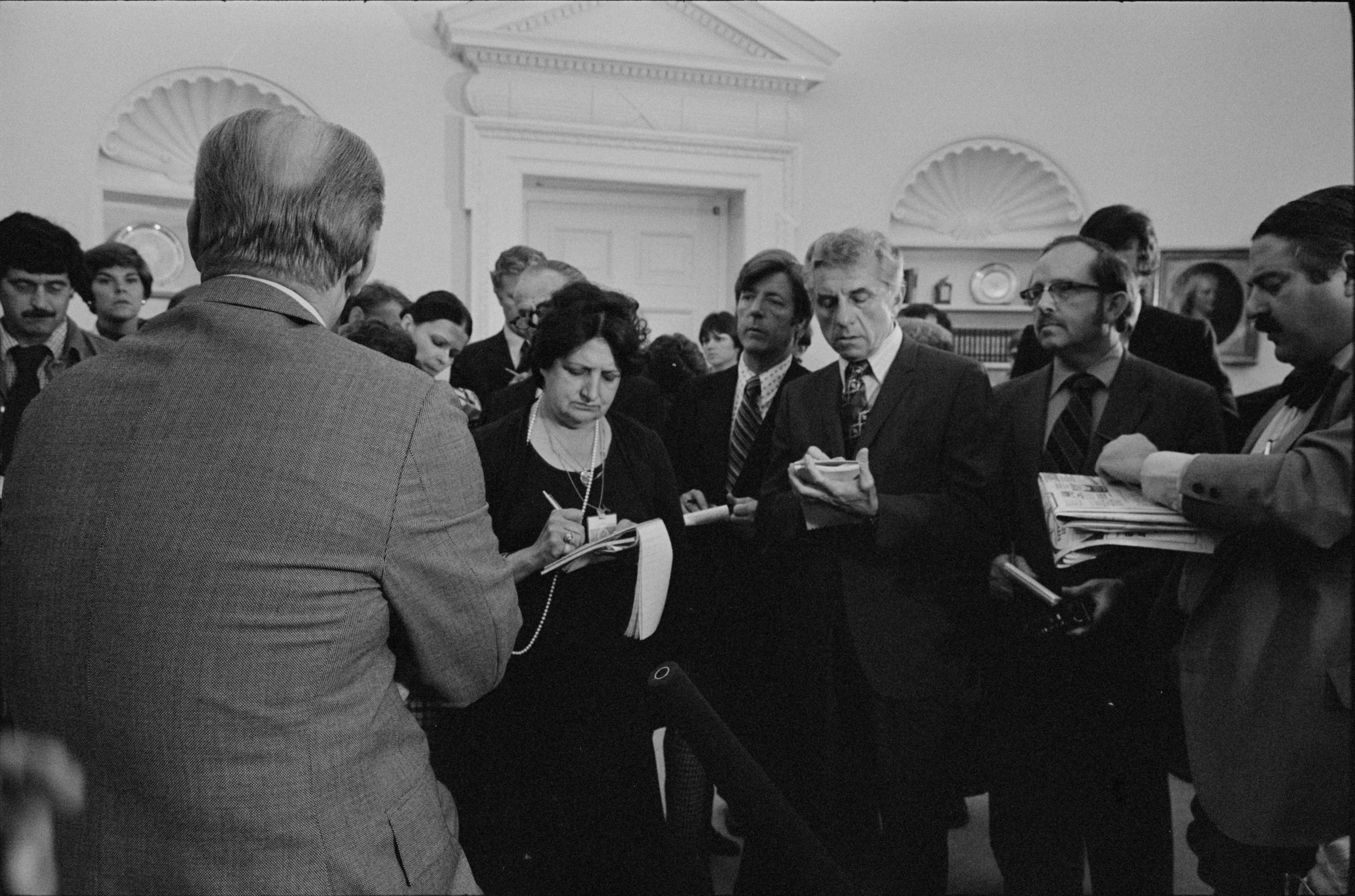 Library of Congress description: "President Gerald Ford talks with reporters, including Helen Thomas, during a press conference at the White House, Washington, D.C"